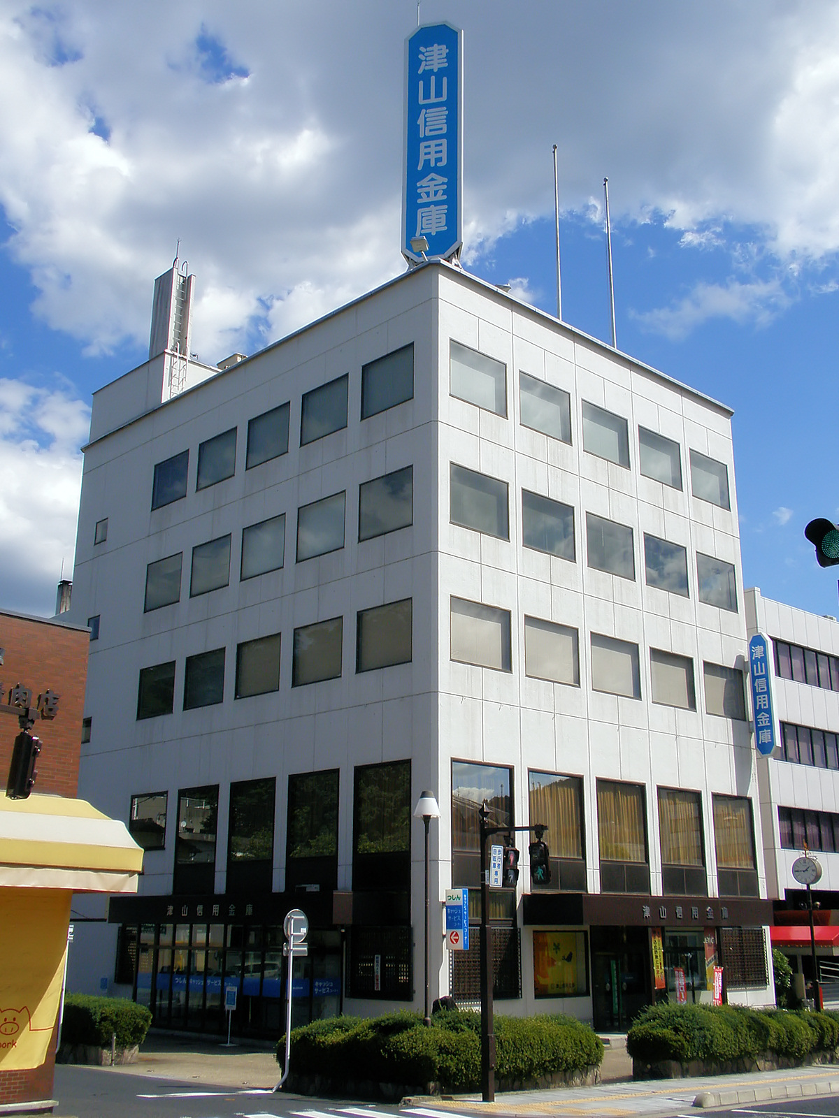 Tsuyama Shinkin Bank head store, Tsuyama, Okayama.